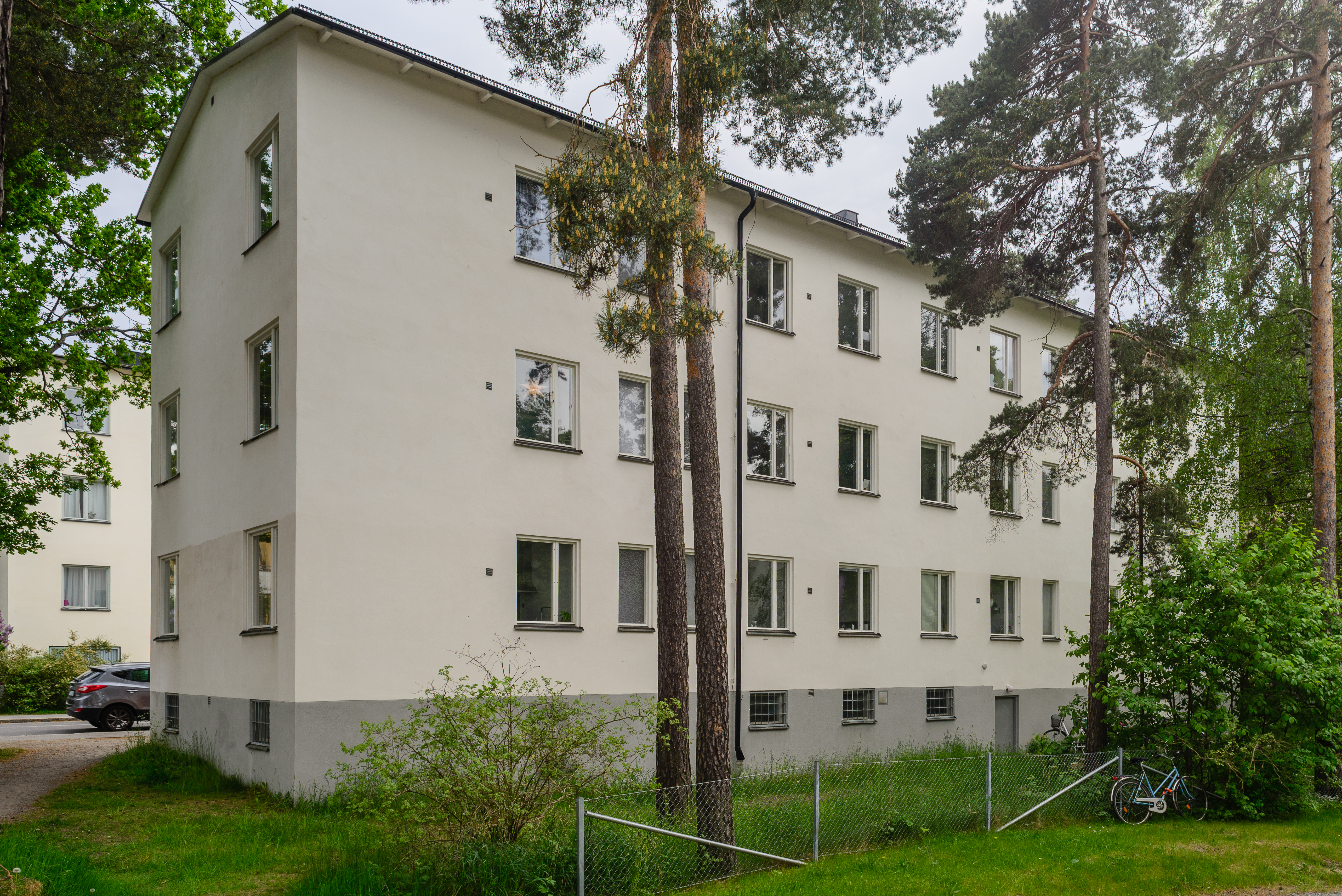 Building on Finn Malmgrens väg 23-25 in Hammarbyhöjden, Stockholm. Built in the late 1930s. Architect Sture Frölén. Willy Brandt was living in the building 1941-1945.